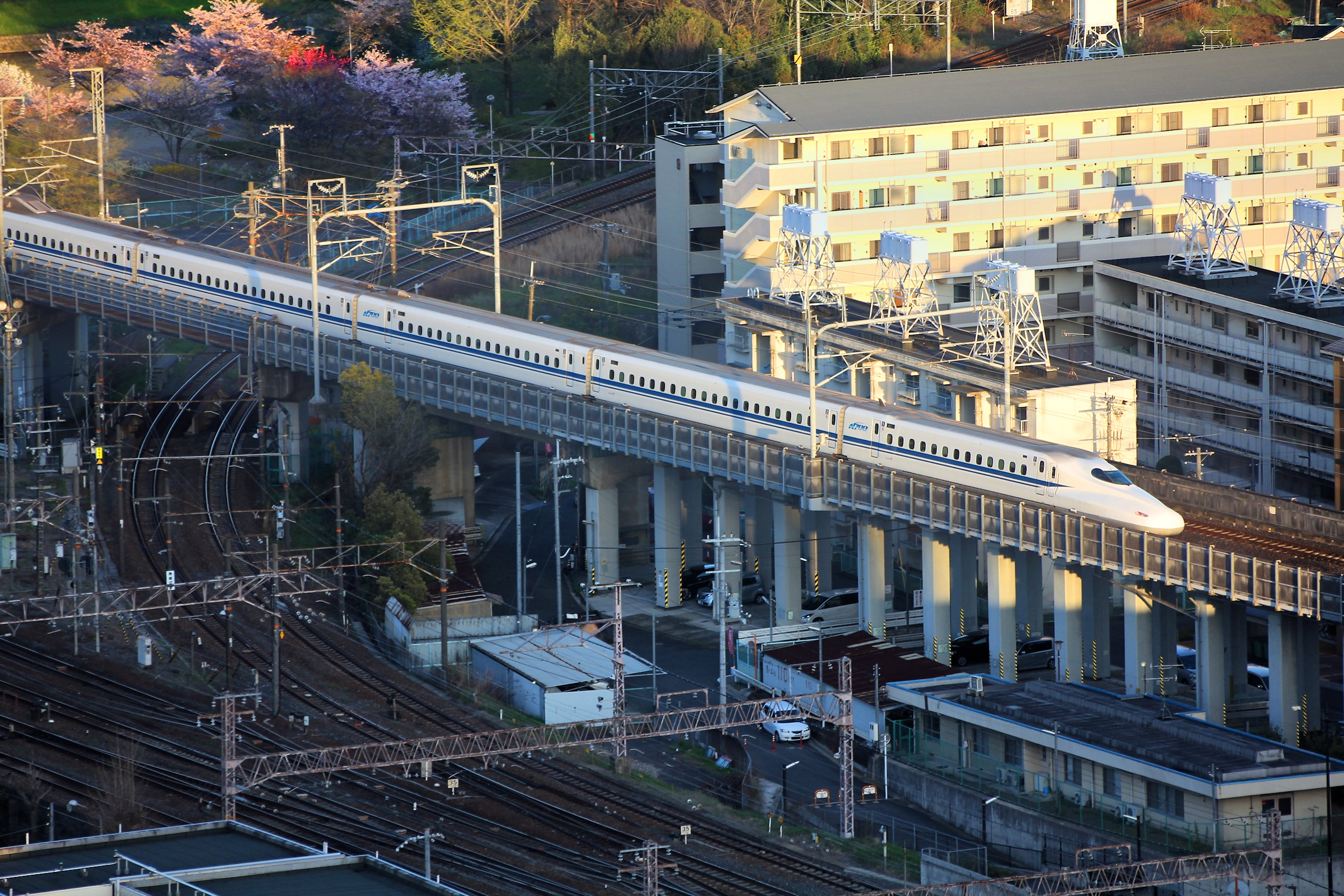 N700 Series Shinkansen bullet train arriving at Kyoto Station, Japan.